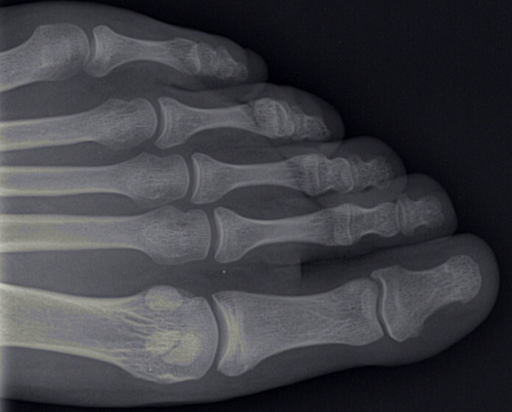 xray of toe bones